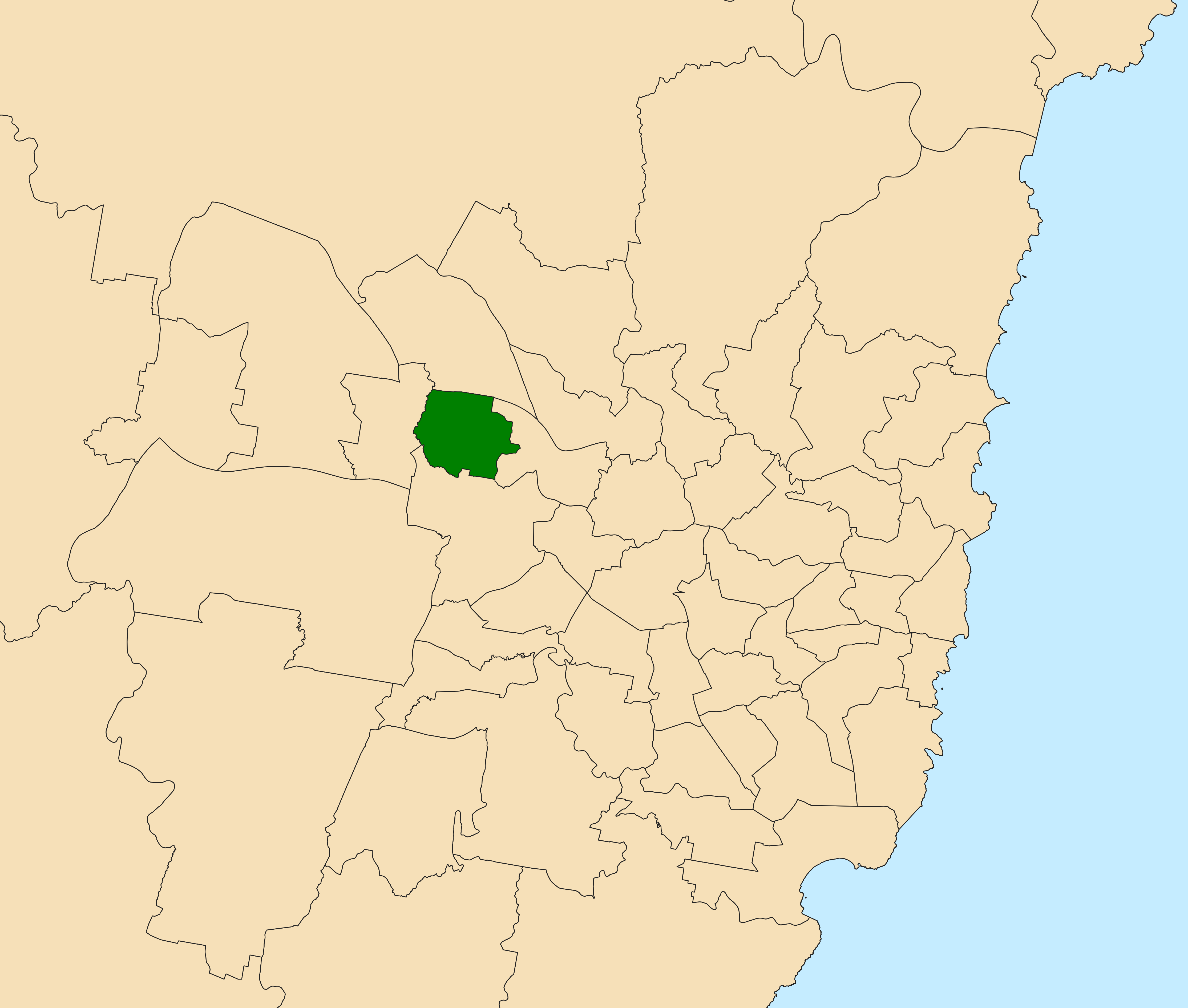 Location of the state electoral district of Blacktown (dark green) in the metropolitan Sydney area as of the 2019 New South Wales state election. Incorporates or developed using Administrative Boundaries ©PSMA Australia Limited licensed by the Commonwealth of Australia under Creative Commons Attribution 4.0 International licence (CC BY 4.0).